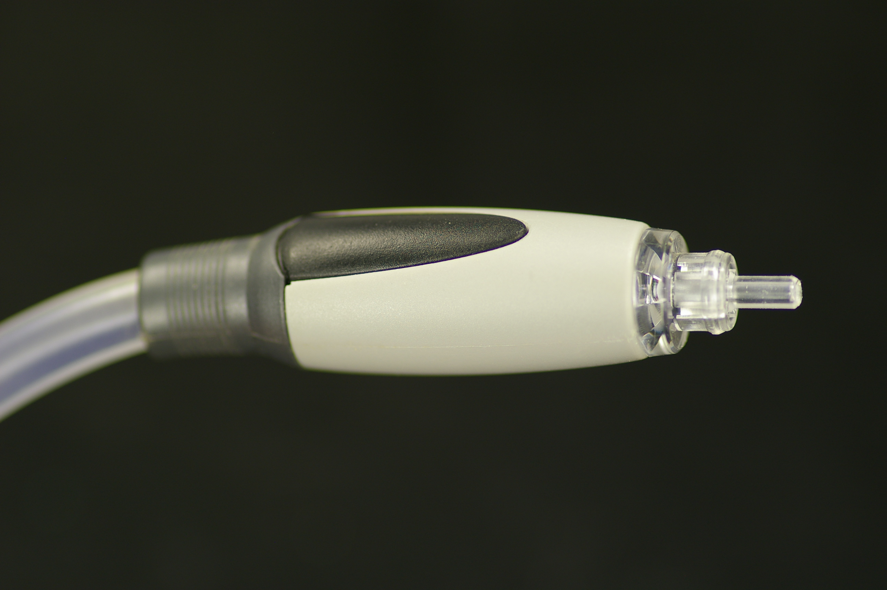 TOSLINK cable without a keyed connector, and a clear jacket on the fiber optic cable.